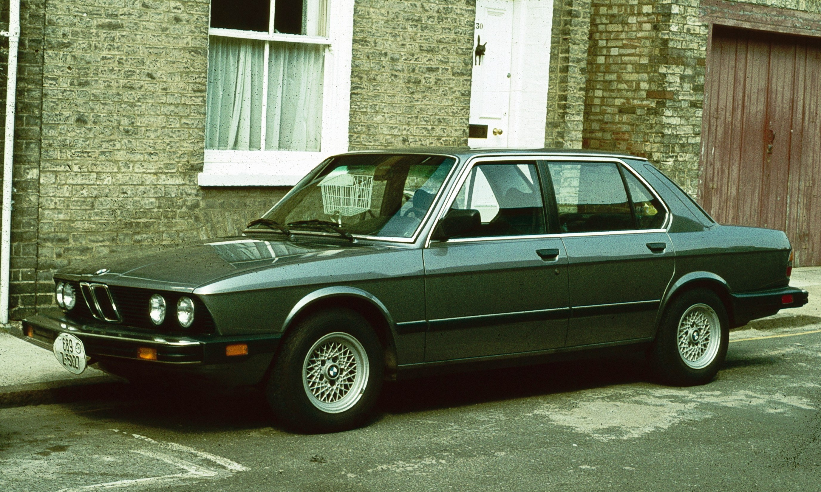 BMW 528 In UK but US spec